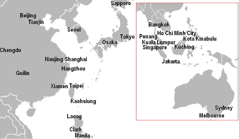 Cities with direct international airlinks wtih MFN